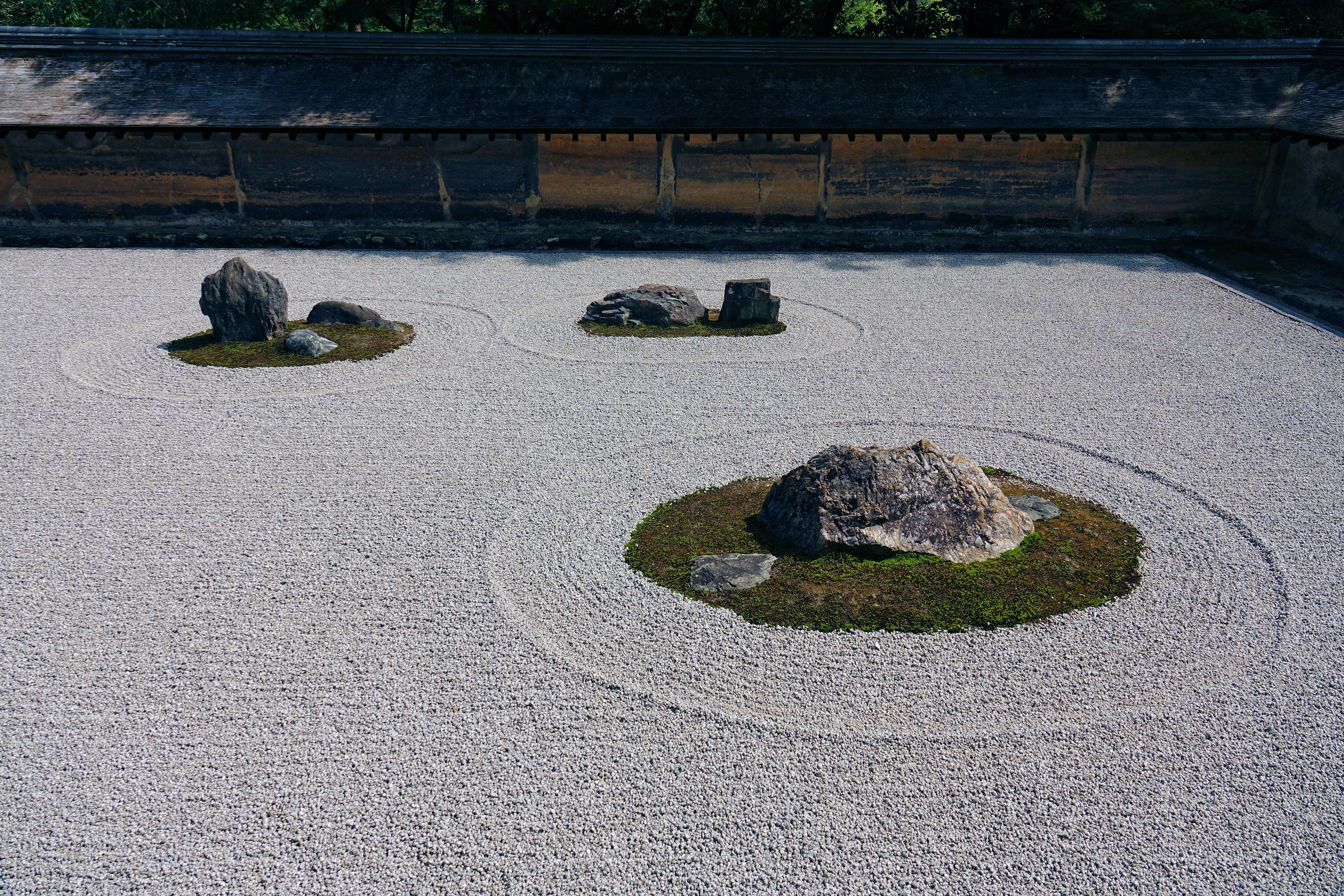 Stones in the Zen garden/rock garden at the Ryōan-ji temple in Kyoto, Japan.